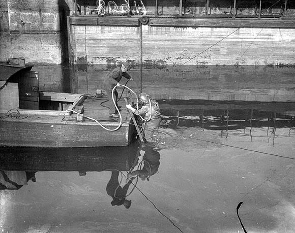 This diver was photographed on the River Shannon. He may have been involved in survey work for the Shannon Hydroelectric Scheme - the start of widespread electrification in Ireland. Date: 1925 NLI Ref.: INDH608